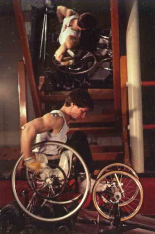 Rick Hansen training on wheelchair ergometer shortly before embarking on Man in Motion Tour, Biomechanics Laboratory, University of British Columbia, Vancouver, BC, Canada